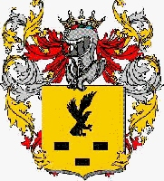 The Crest of Pezzali Family